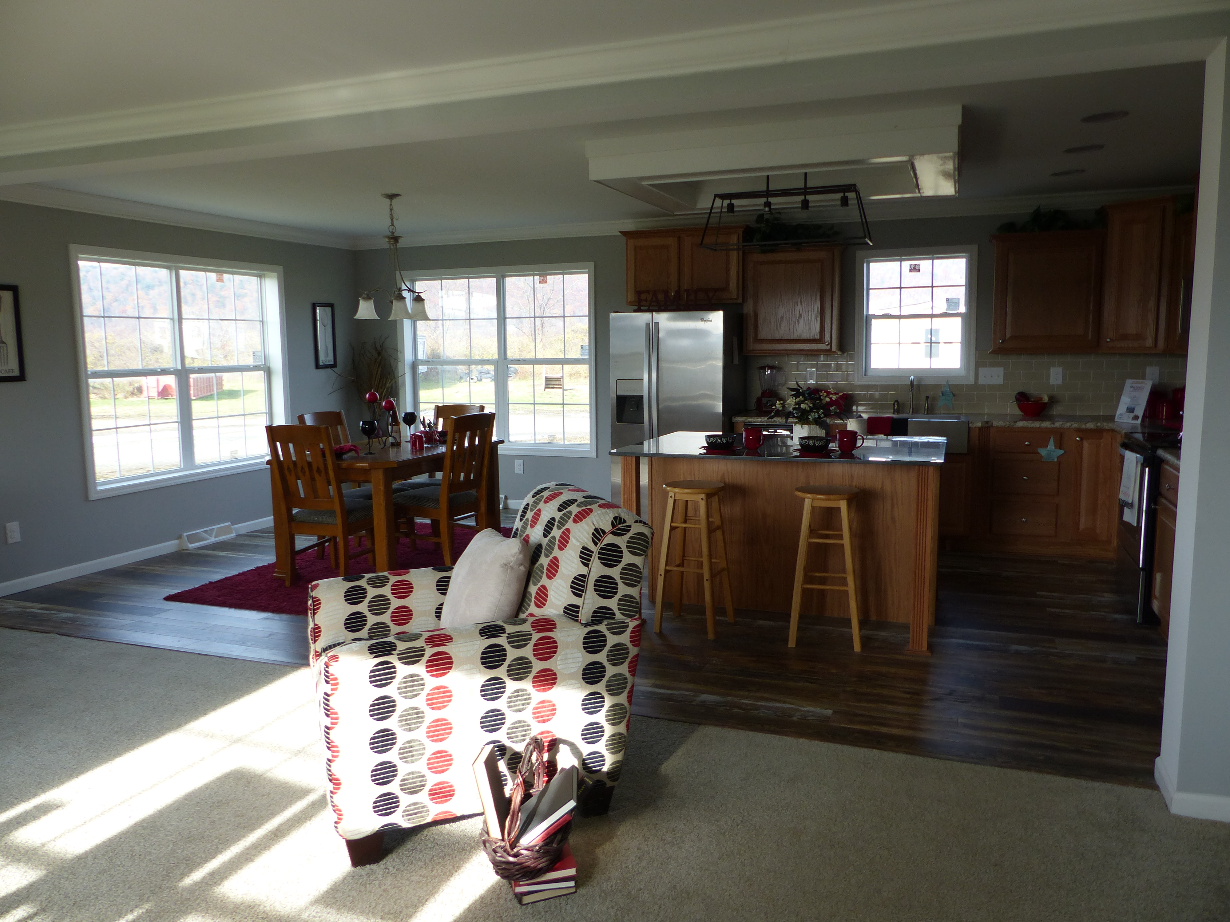 seen in a home dealership